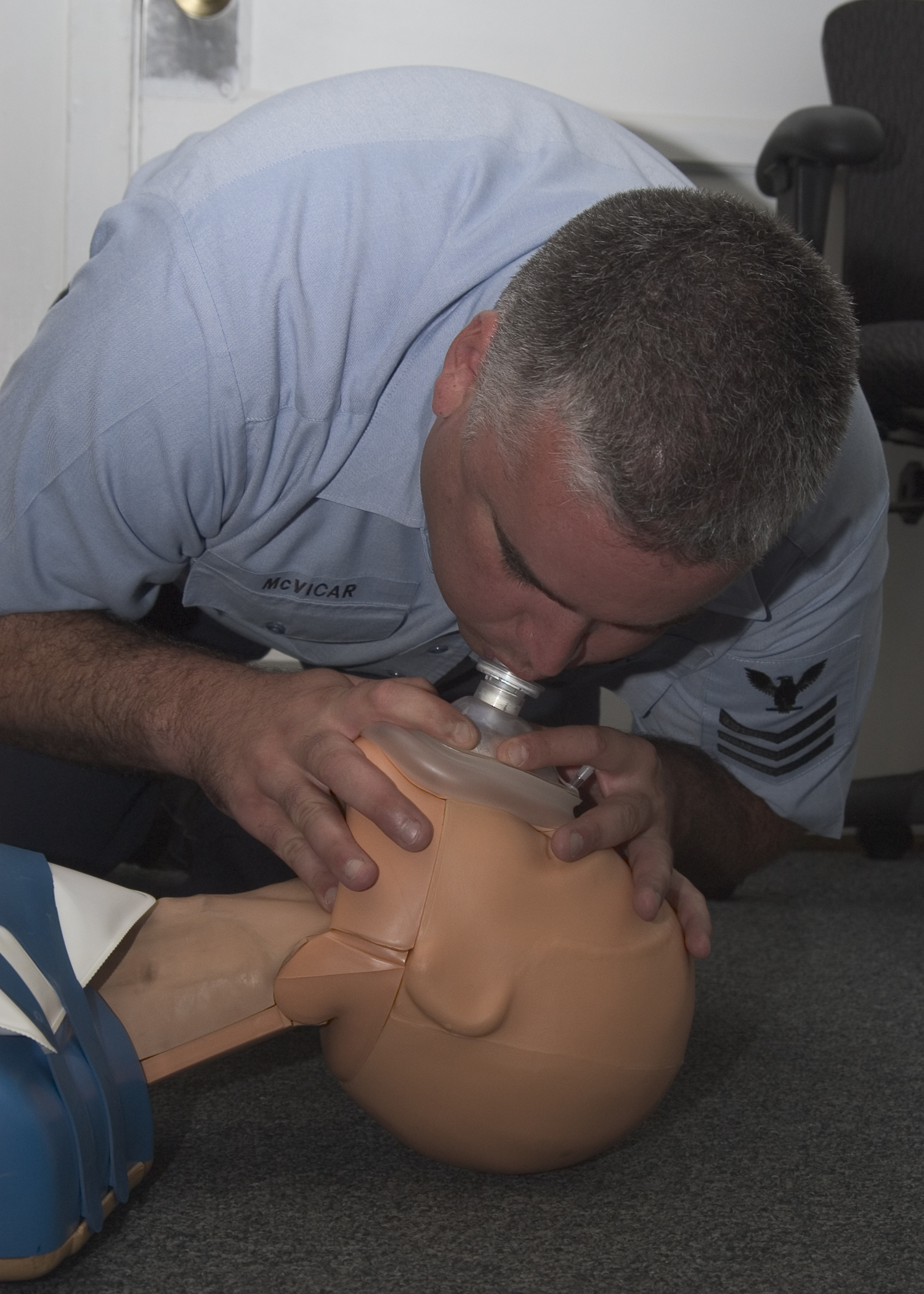 Naval Air Station Whidbey Island, Wash. (Aug 24, 2004) - Photographer's Mate 1st Class Bruce McVicar from Seattle, Wash., performs mouth to mouth breathing during Cardio Pulmonary Resuscitation (CPR) training on board Naval Air Station, Whidbey Island, Wash. U.S. Navy photo by Photographer's Mate 3rd Class Jesse Praino (RELEASED)